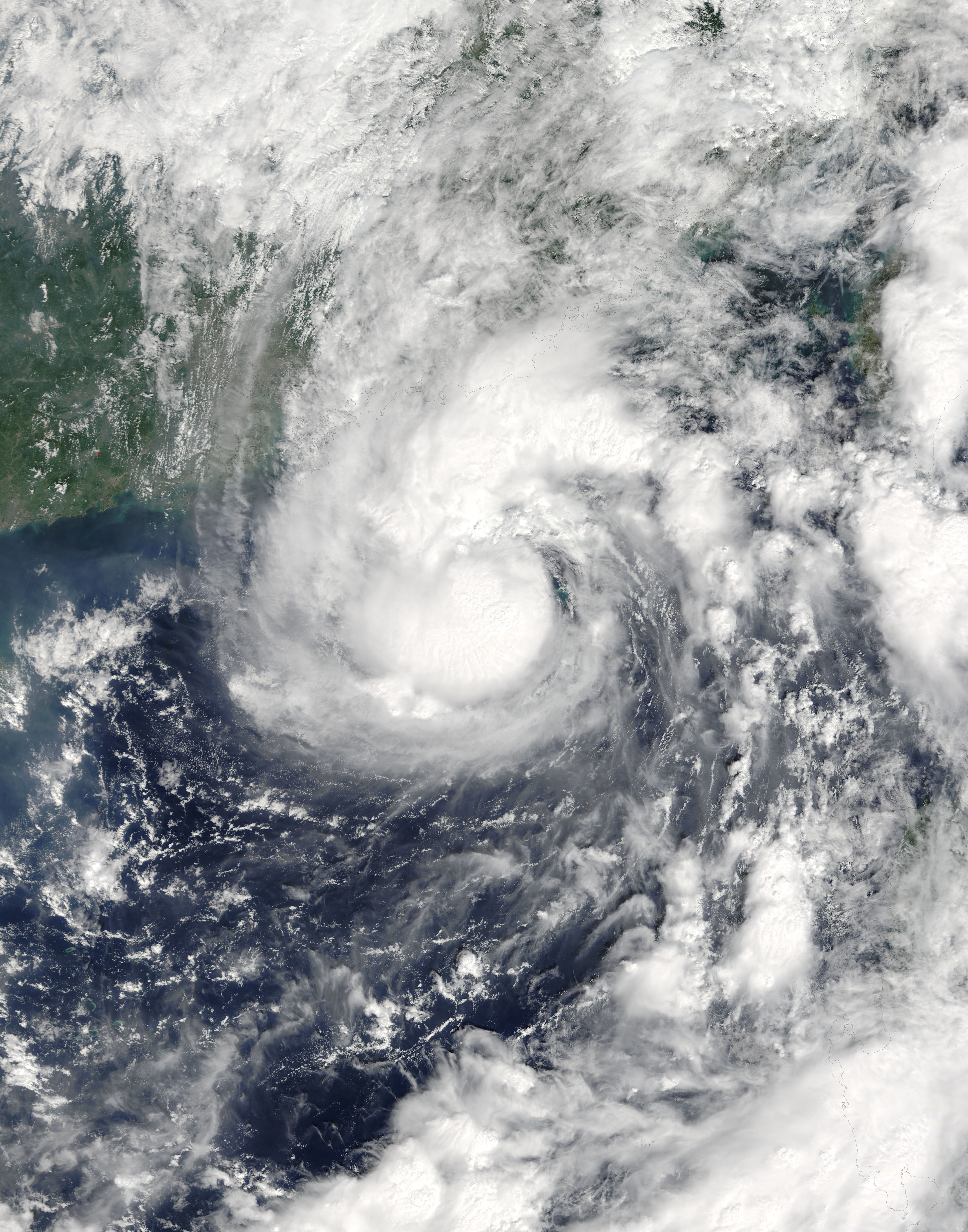 Tropical Storm Aere (22W) off southeast China